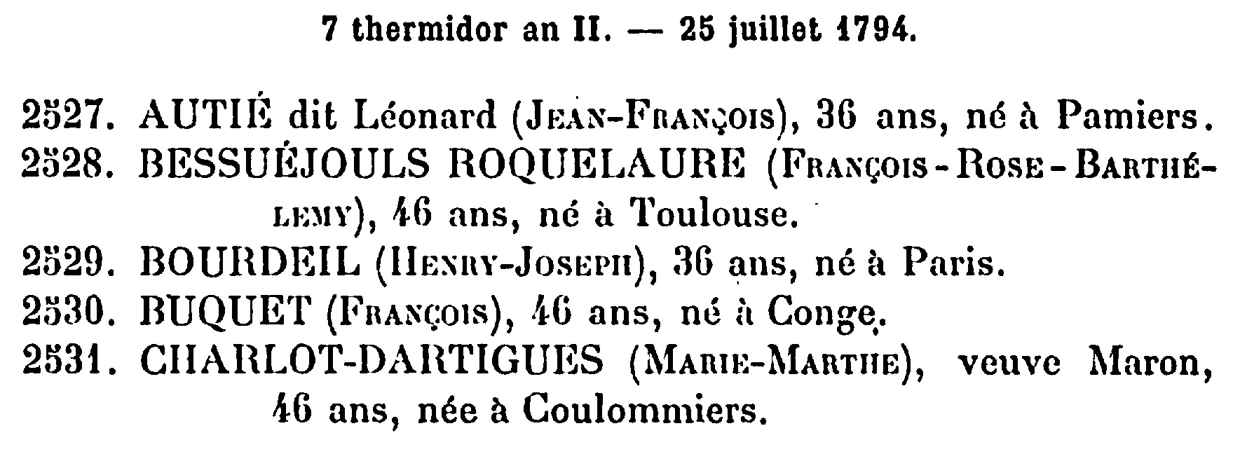 Detail from the list of victims of the Revolutionary Tribunal of Paris on the 25th of July 1794, showing the name of Jean-François Autié, called Léonard, hairdresser to Marie Antoinette